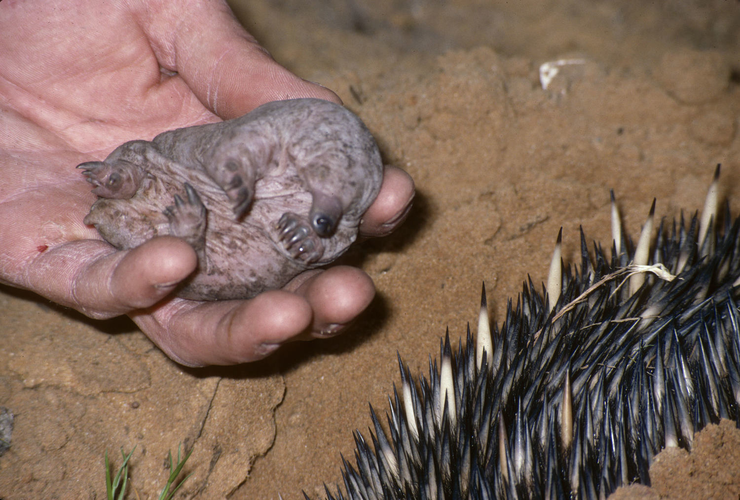 Short-beaked Echidna, Tachyglossus aculeatus, baby (called a 'puggle').